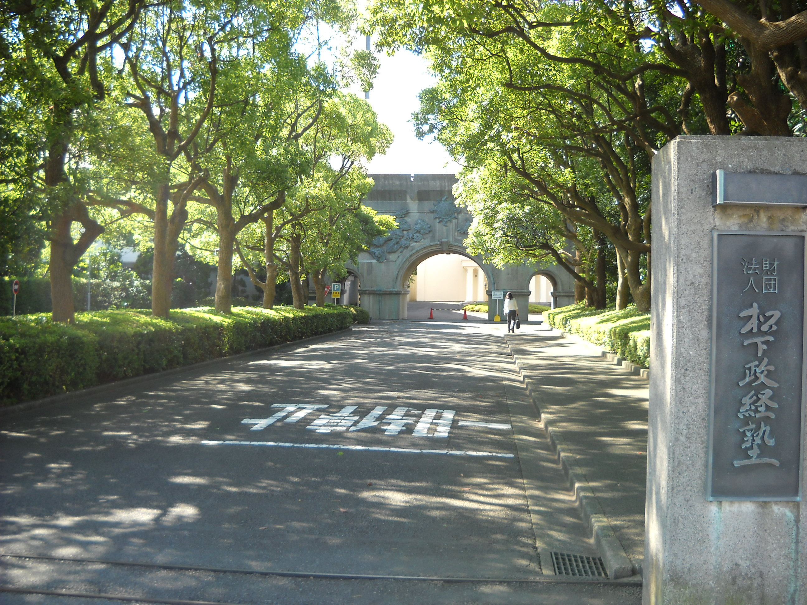 The Matsushita Institute of Government and Management, Chigasaki city, Kanagawa, Japan